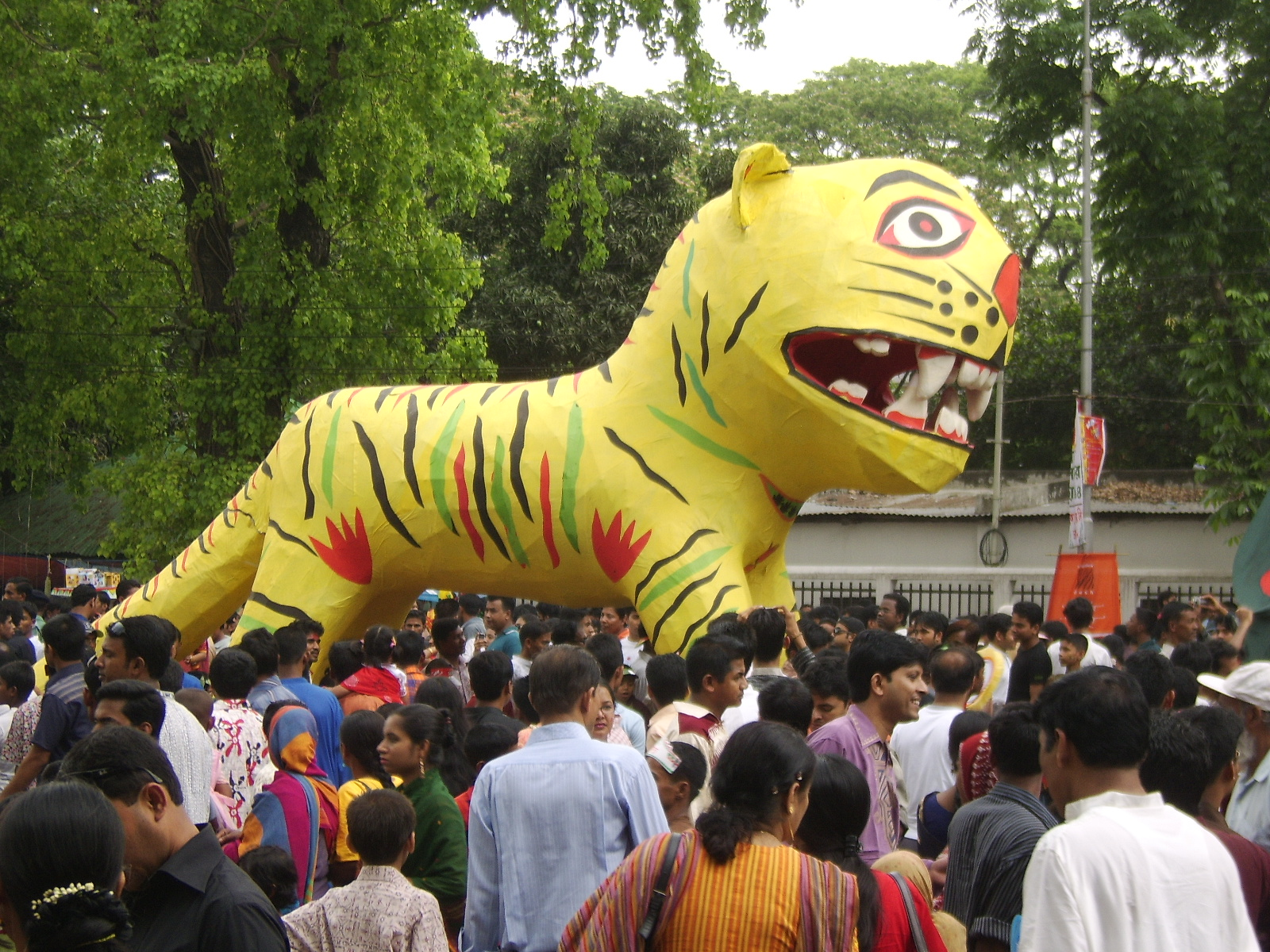 Pohela Boishakh Mongol Sovajatra at TSC.